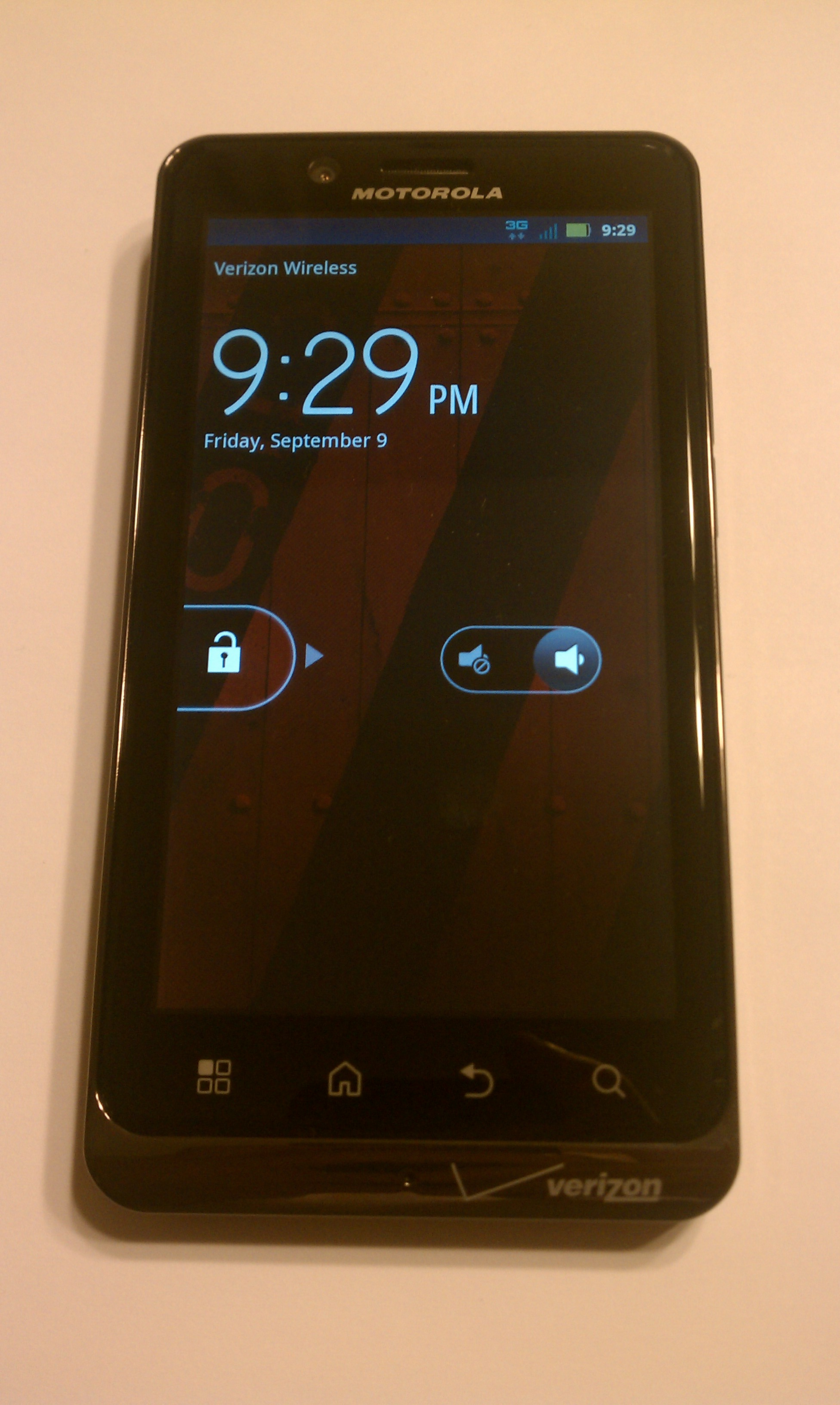 Picture of the front of the DROID BIONIC by Motorola